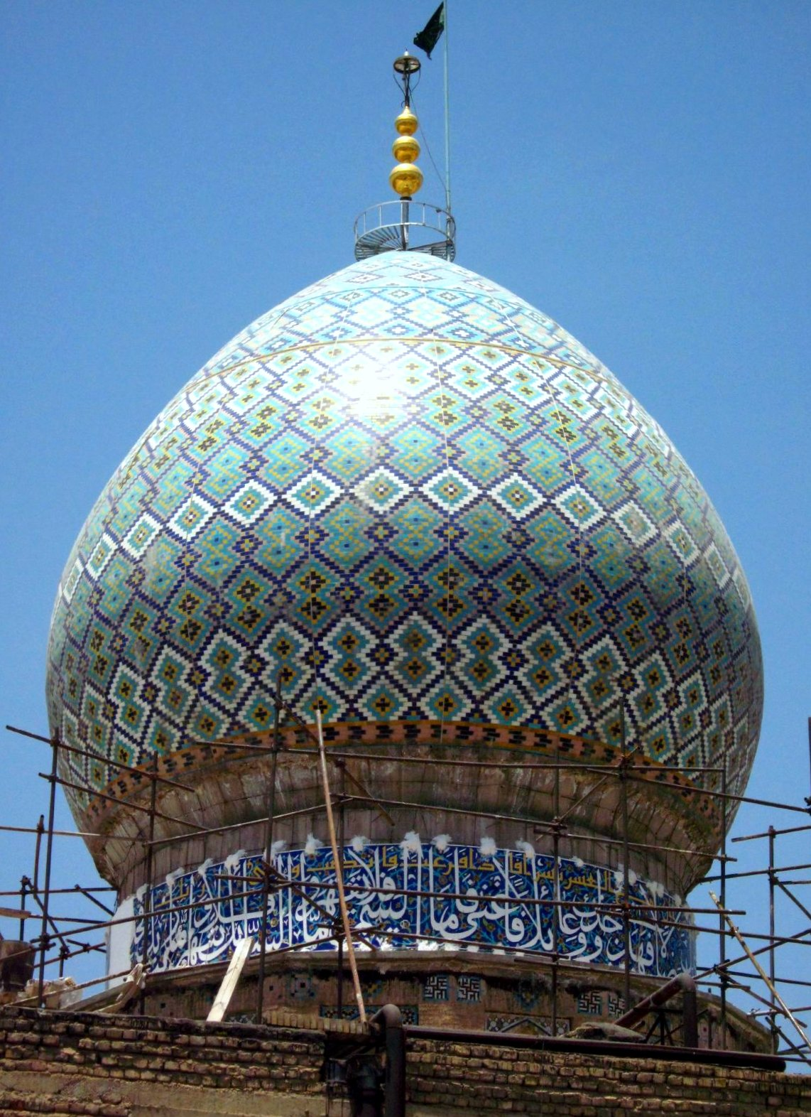 Mausoleum of Shah-e Cheragh, Shiraz, Iran